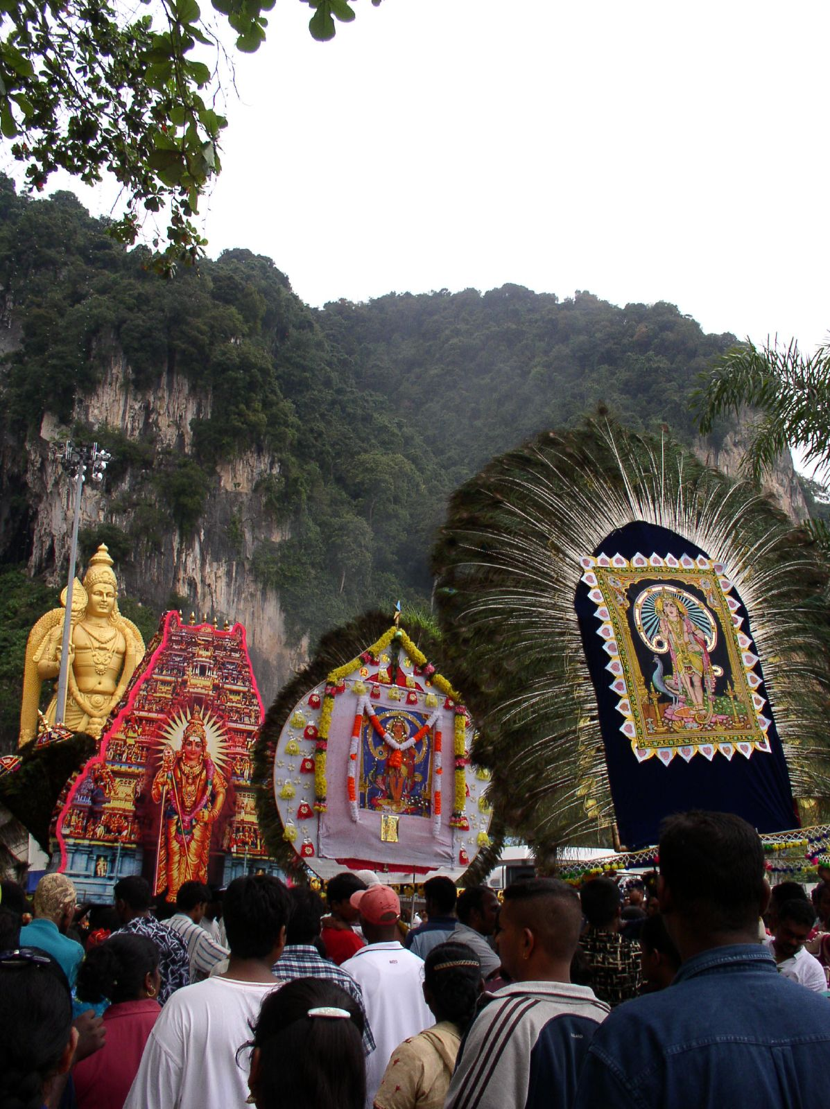 Procession of Murugan idols during a Thaipusam festival celebration at Batu Caves in Malaysia.